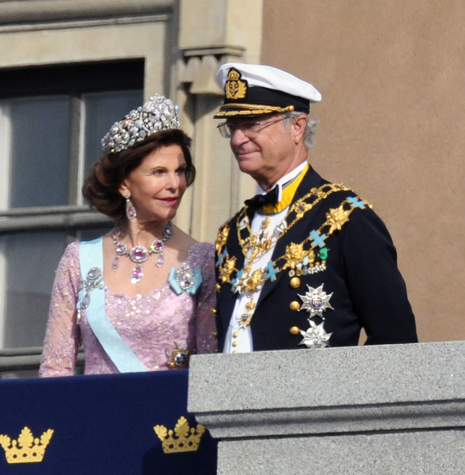 Wedding of Victoria, Crown Princess of Sweden, and Daniel Westling; Carl XVI Gustaf of Sweden and Queen Silvia of Sweden